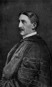 Edwin Alderman, President of the University of Virginia and University of North Carolina at Chapel Hill.